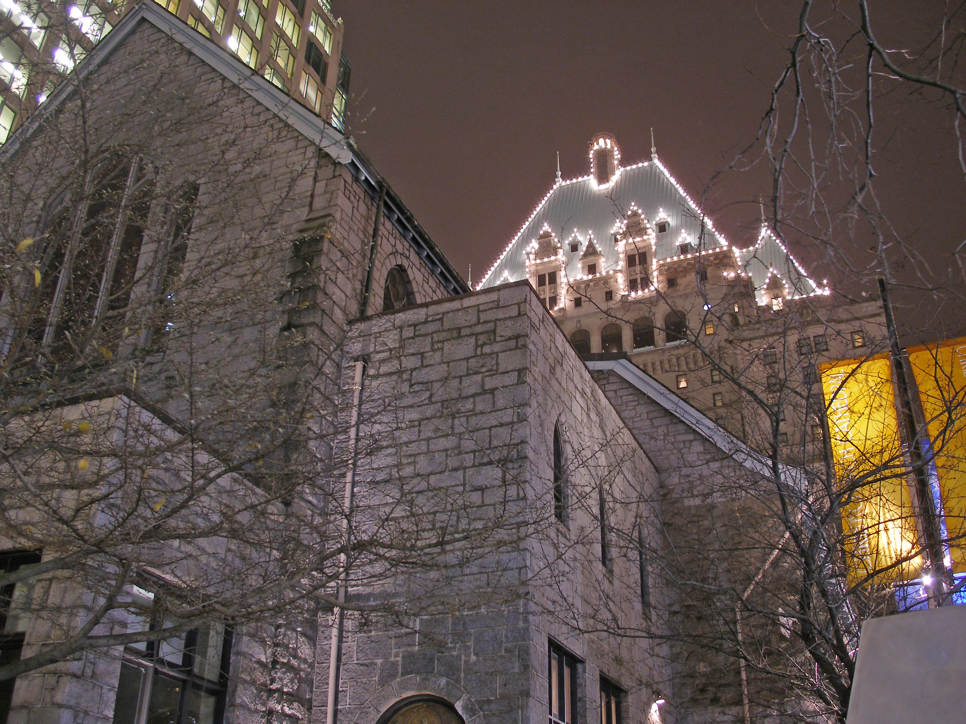 Christ Church Cathedral with the Hotel Vancouver in the background